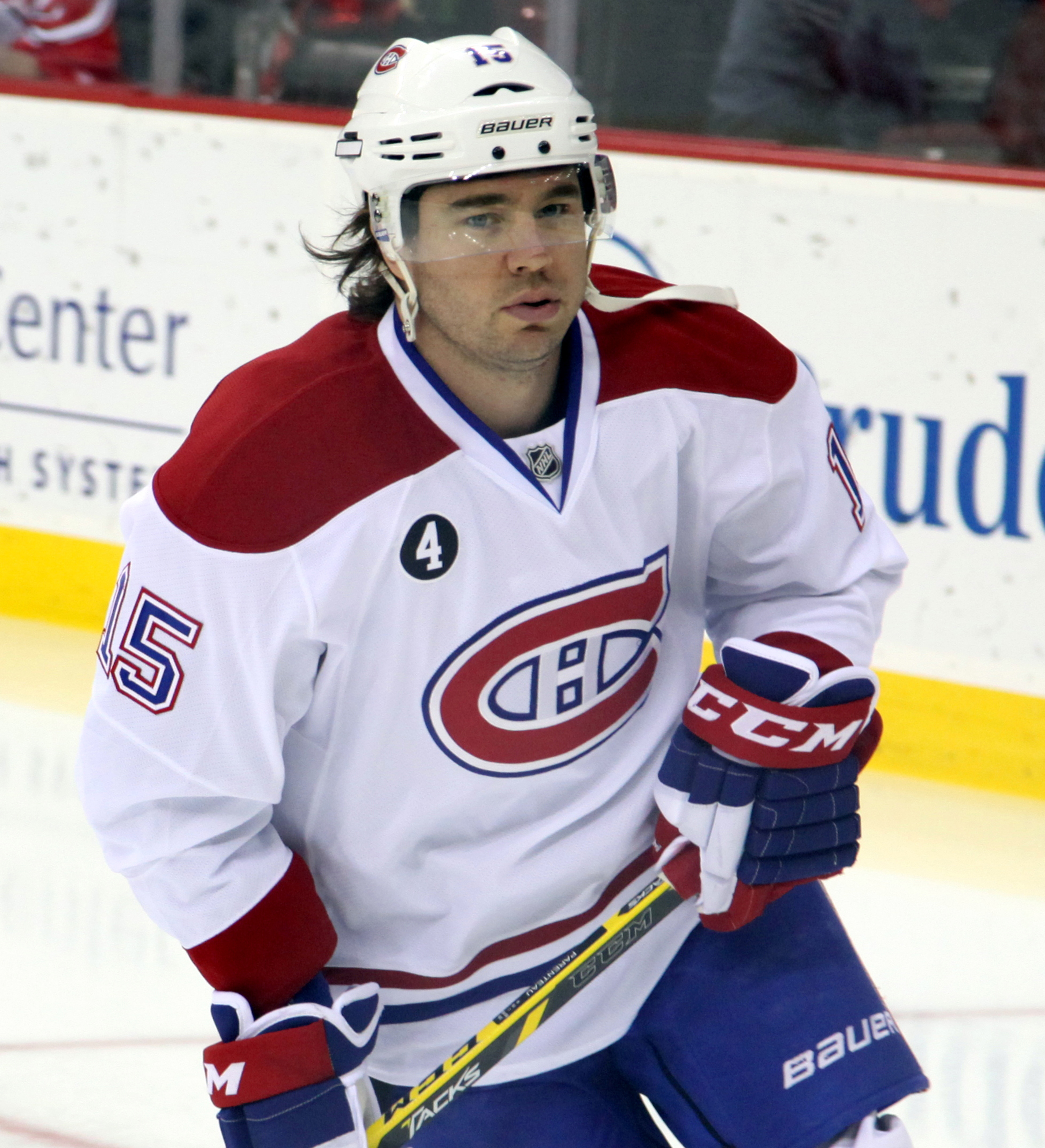 PA Parenteau in January 2015.